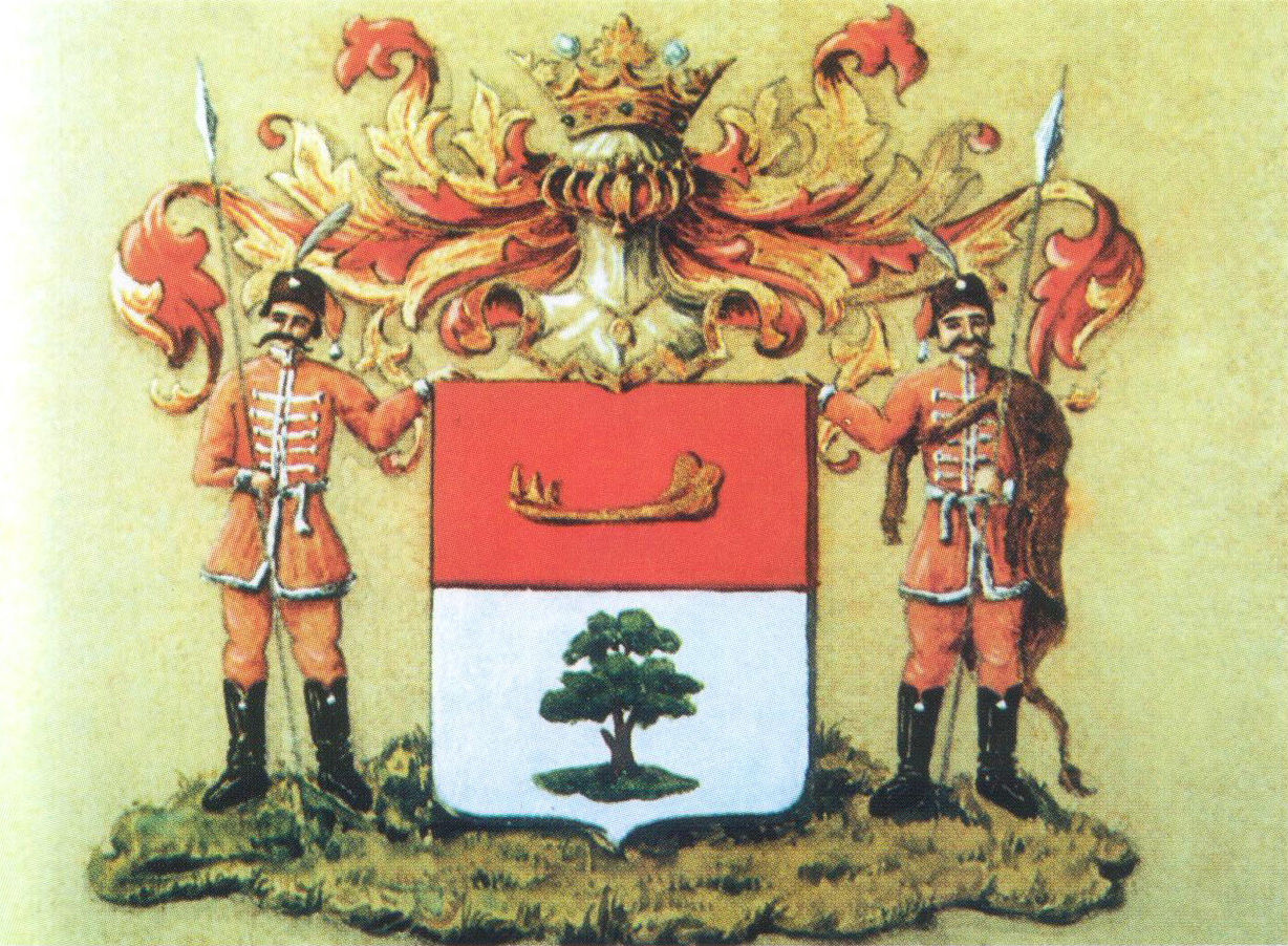 Coat of arms of the Bakunin-family